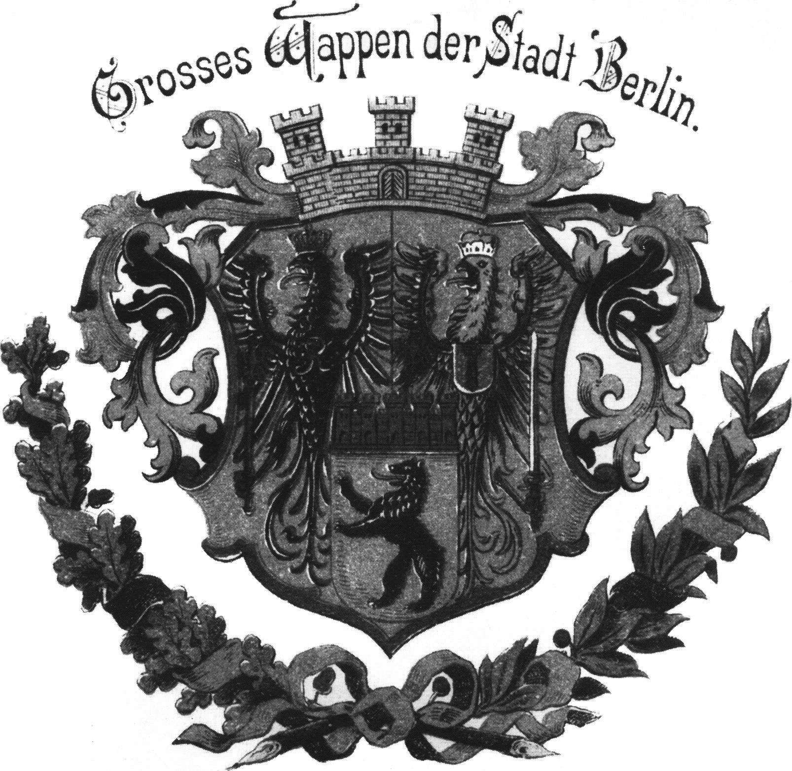 Big Coat of arms of Berlin from 1883 to 1920.